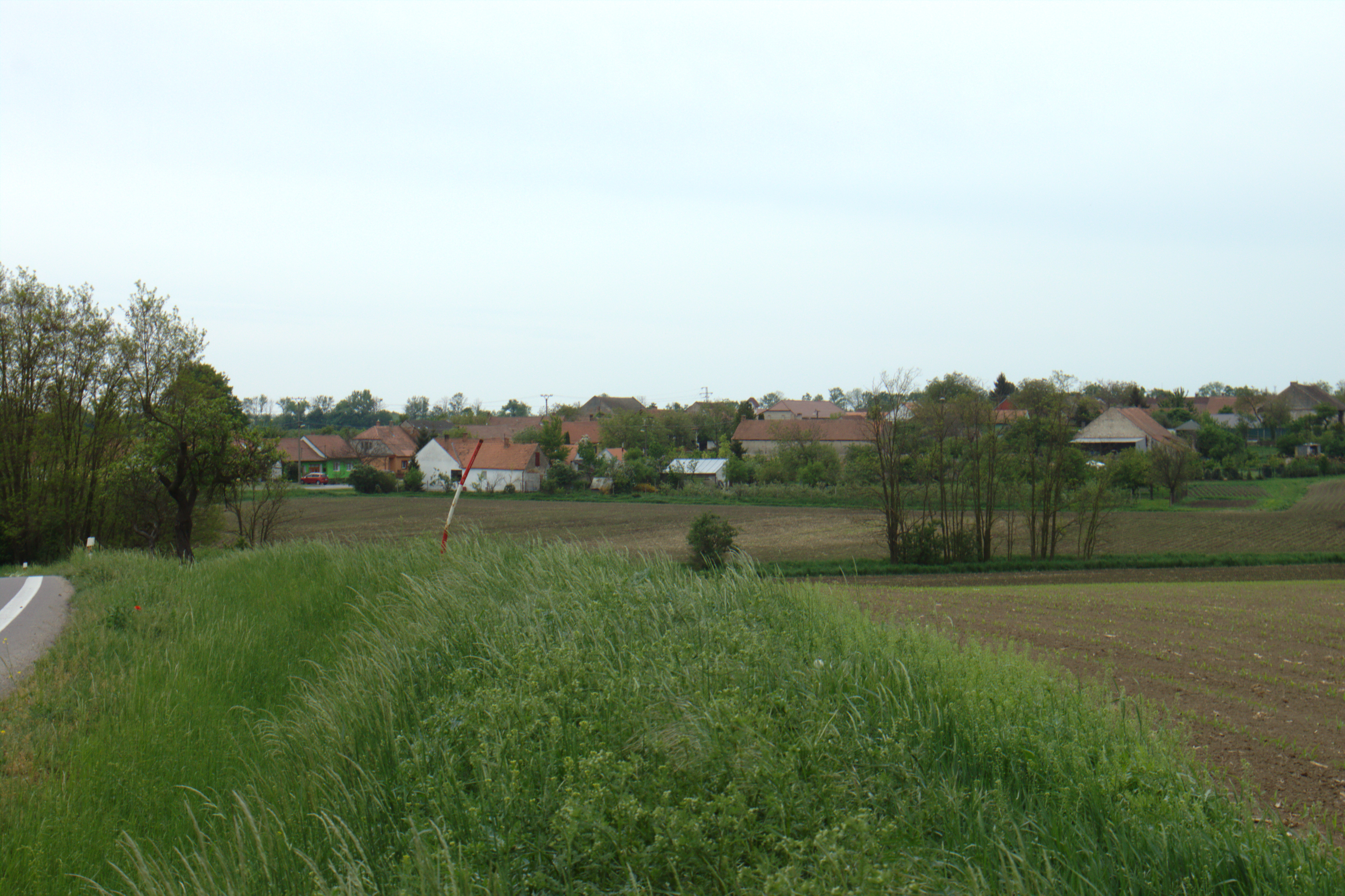 View of the village of Trnové Pole from Pohořelice, South Moravian Region, CZ